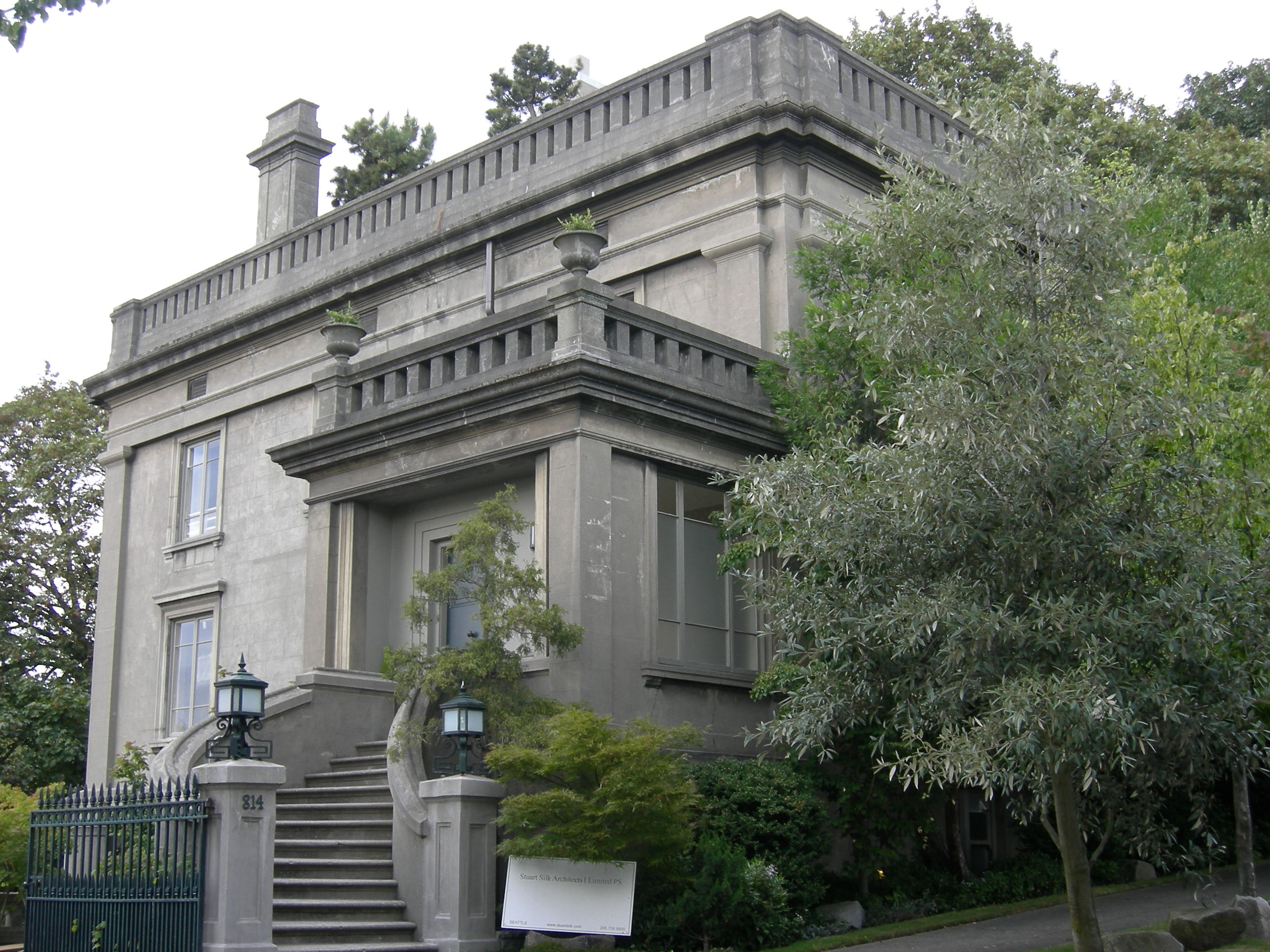 This concrete house on E Highland Drive in the Harvard Belmont Landmark District, Capitol Hill, Seattle, Washington, was built in 1910 for transportation magnate Samuel Hill. Architects: Hornblower and Marshall, based in Washington, D.C. Both the house itself and the neighborhood are listed on the National Register of Historic Places. The house is currently undergoing a renovation led by Stuart Silk Architects.